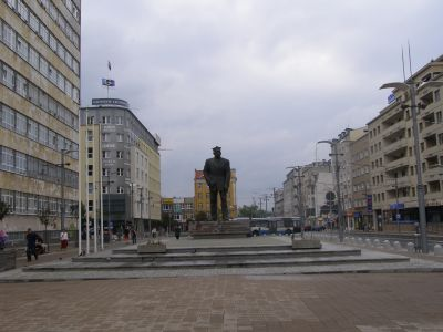 The Antoni Abraham statue in Gdynia, Poland